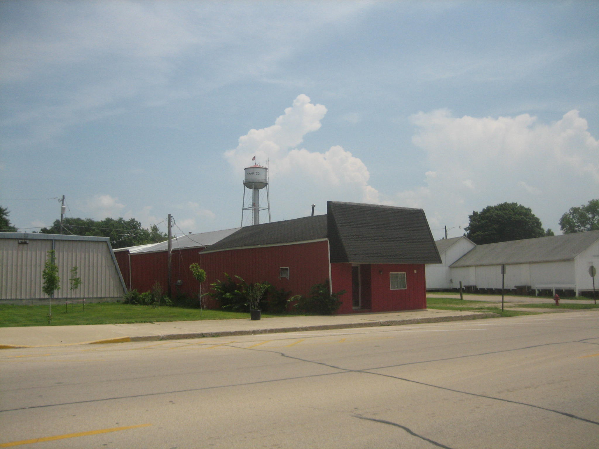 Main Street Historic District, Tampico, Illinois. U.S. National Register of Historic Places. 131 S. Main St. Formerly part of the Glassburn lumber and feed property.